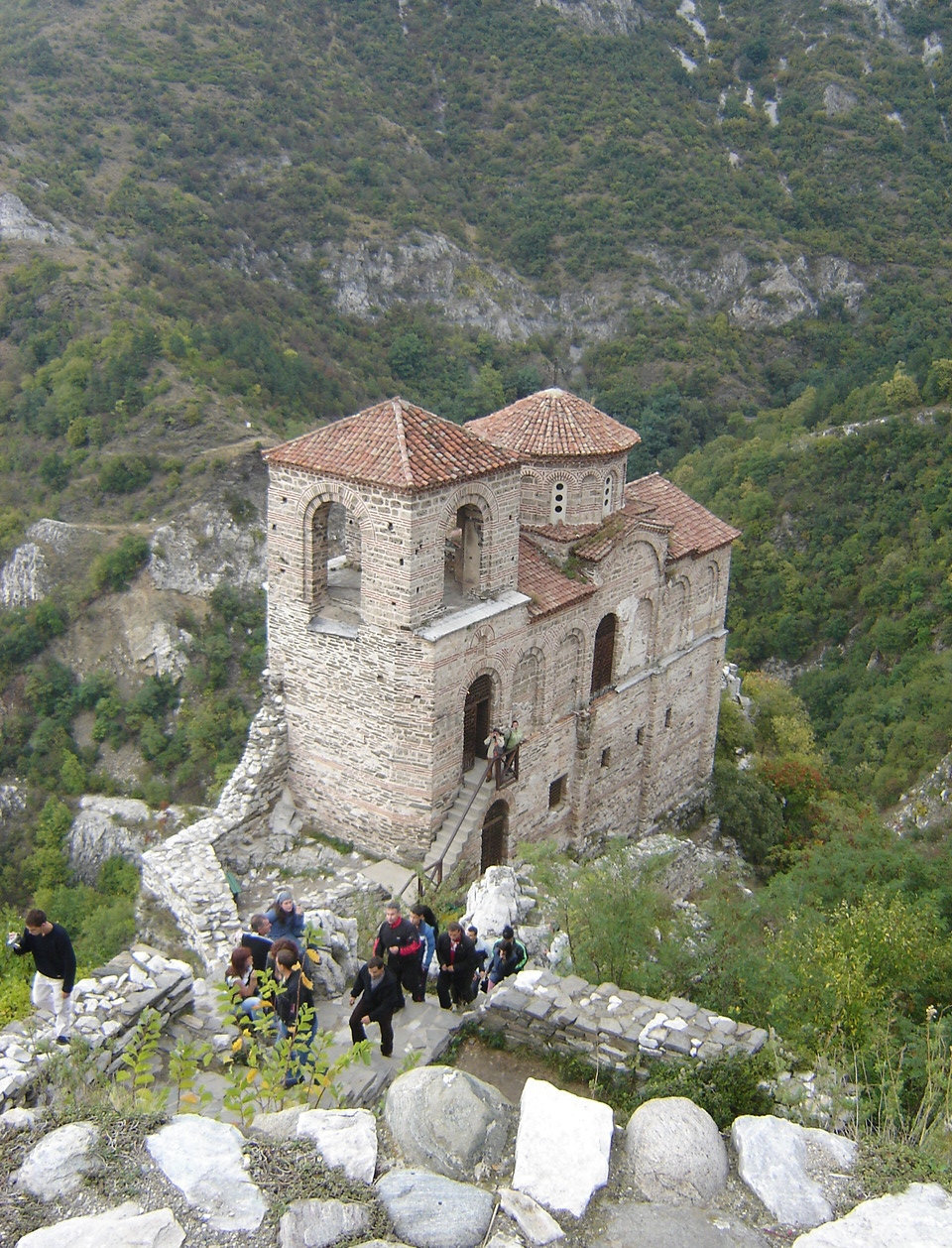 Asenova fortress, Bulgaria